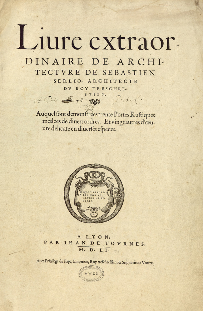 Title page of the 1551 edition of Sebastiano Serlio’s “extraordinary book” complementing his “Seven Books of Architecture”, composed of Jean de Tournes’ antiqua